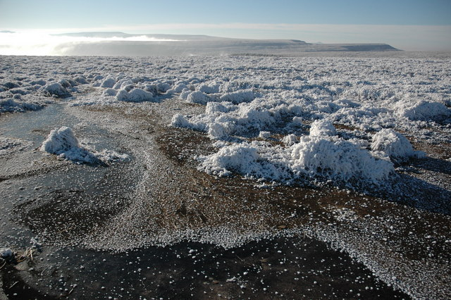 Frozen peat bog, near Hay Bluff View to the west over the frozen Black Mountains, in the far distance Pan y Fan the highest point in the Brecon Beacons is just visible. This is a wonderful day after climbing through grey cloud we have emerged above the cloud into brilliant winter sunshine.